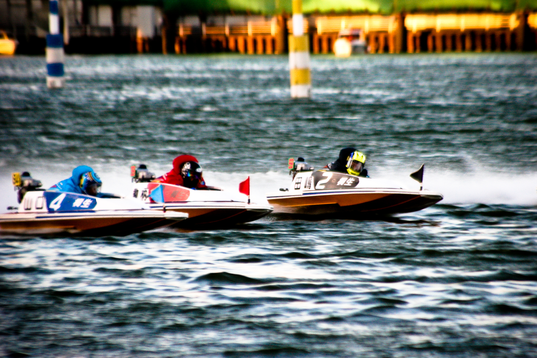 Kiryū Kyōtei(Boat Race) Course